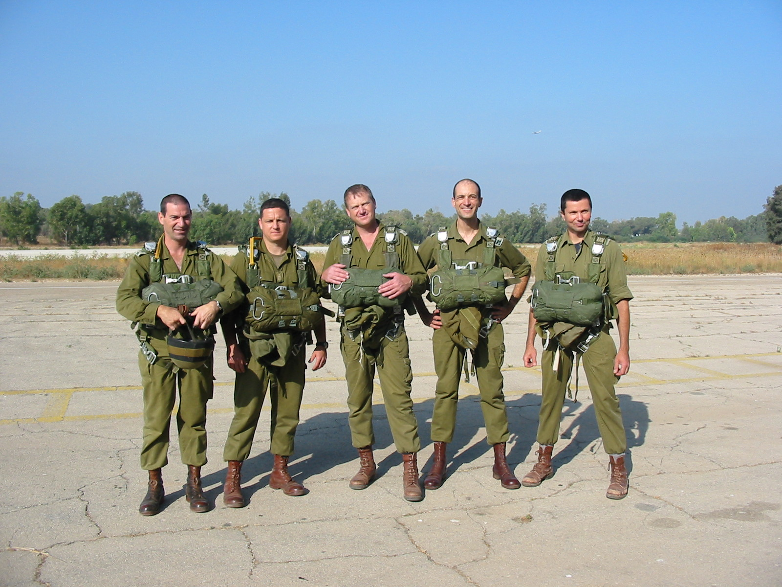 Officers of the IDF 226th res. paratroopers brigade before parachuting exercise.